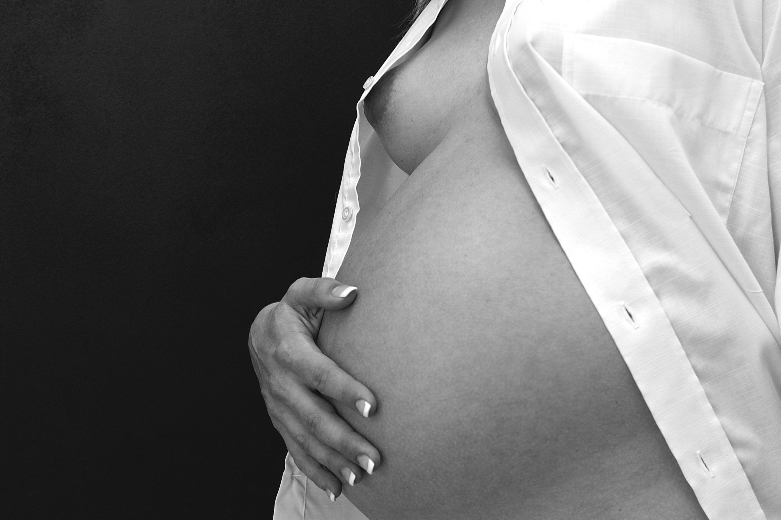 Black and white photograph of a pregnant woman